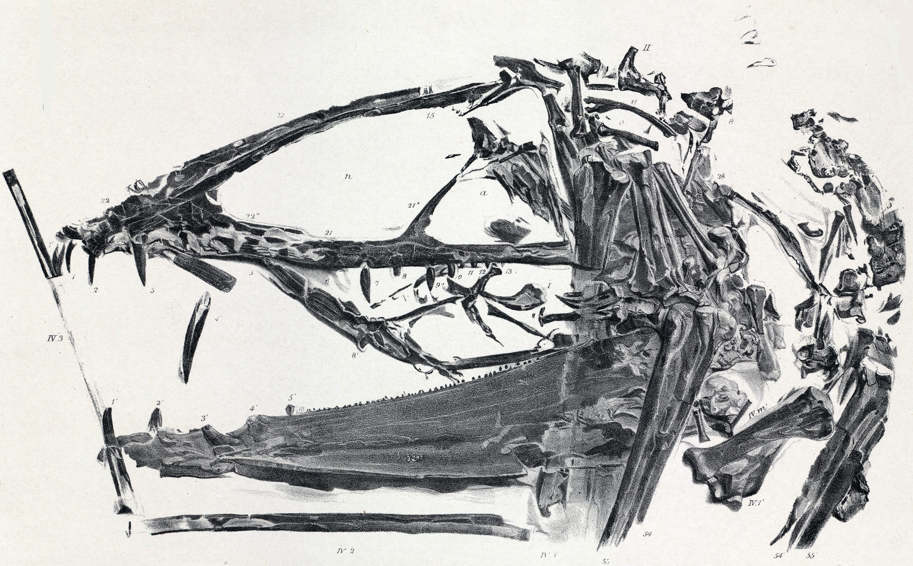 Dimorphodon macronyx. Skull and parts of the skeleton: nat. size. From the Lower Lias of Lyme Regis. In the British Museum.